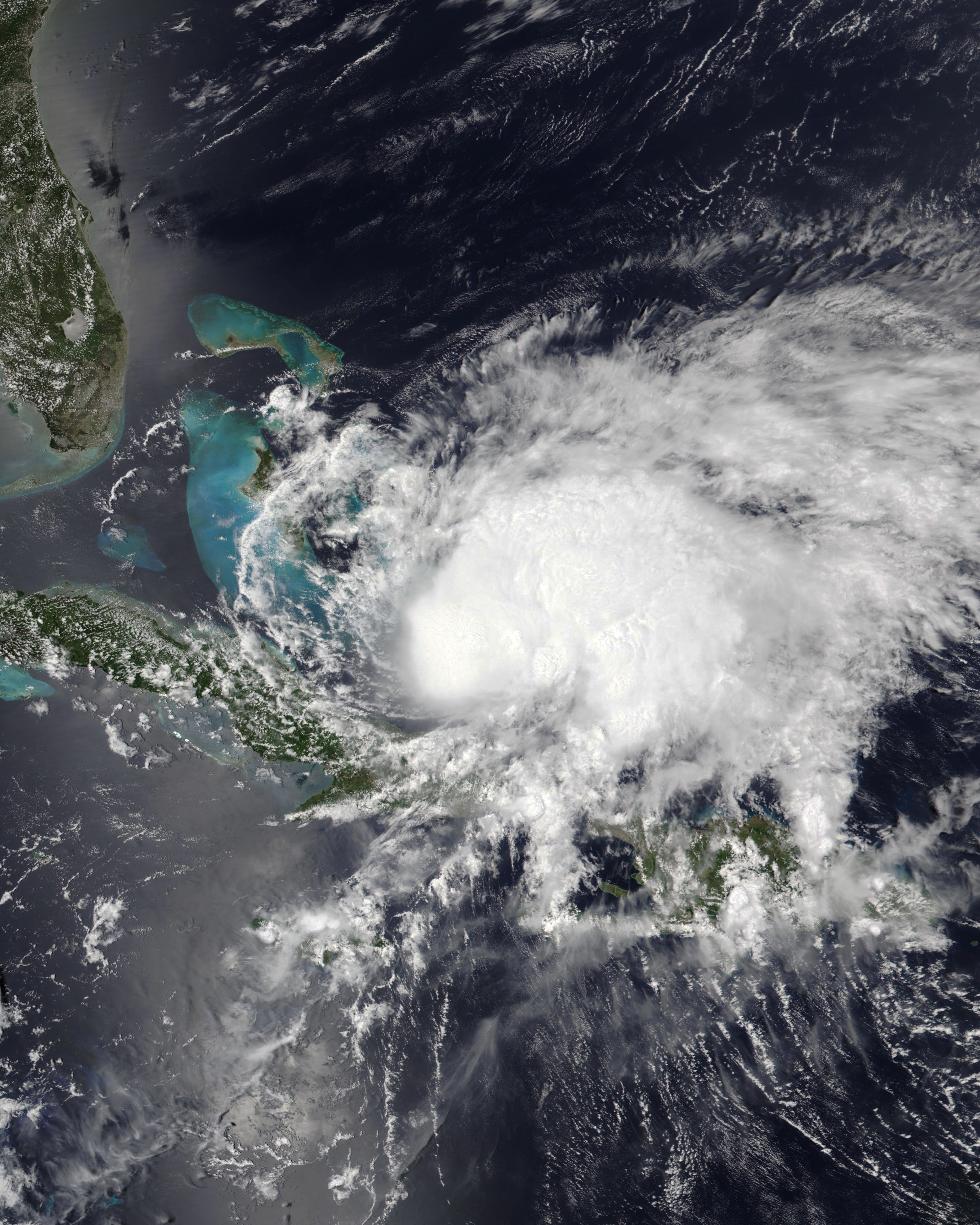 Hurricane Isaias on July 31, 2020